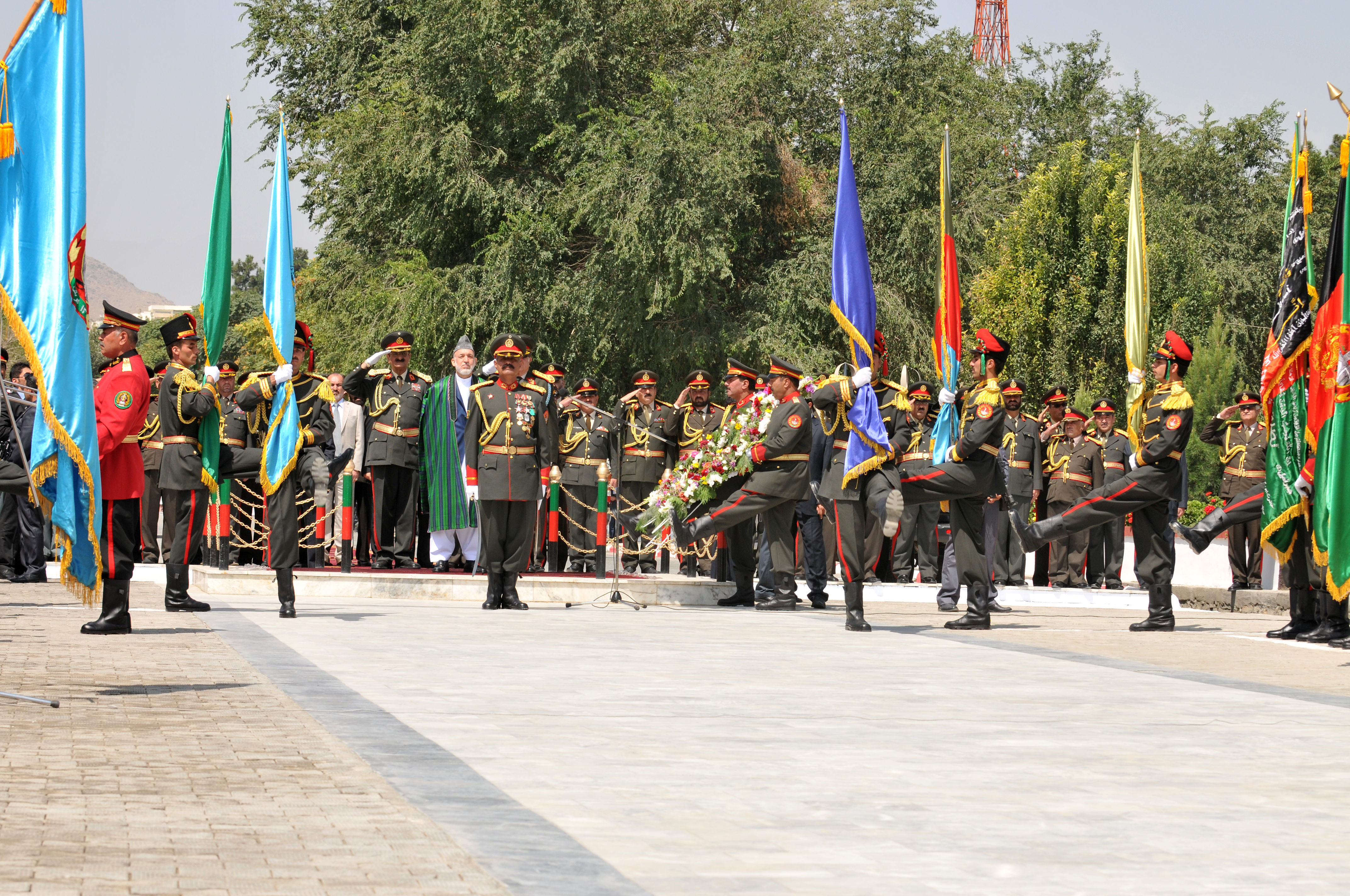 Participants in the Afghanistan Independence Day celebration held at the Ministry of National Defense in Kabul, Aug. 19, pay their respects during the playing of the Afghan national anthem. Marine Corps Gen. John R. Allen, commander of NATO and International Security Assistance Force troops in Afghanistan, and U.S. Ambassador to Afghanistan Ryan Crocker attended the ceremony. During the celebration, President Karzai placed a floral wreath at the base of the marble independence memorial near his palace. Afghan Independence Day is celebrated in Afghanistan on Aug. 19 to commemorate the Treaty of Rawalpindi in 1919. The treaty granted independence from Britain; although Afghanistan was never officially a part of the British Empire. (U.S. Air Force photo by Master Sgt. Michael O'Connor) (Released)